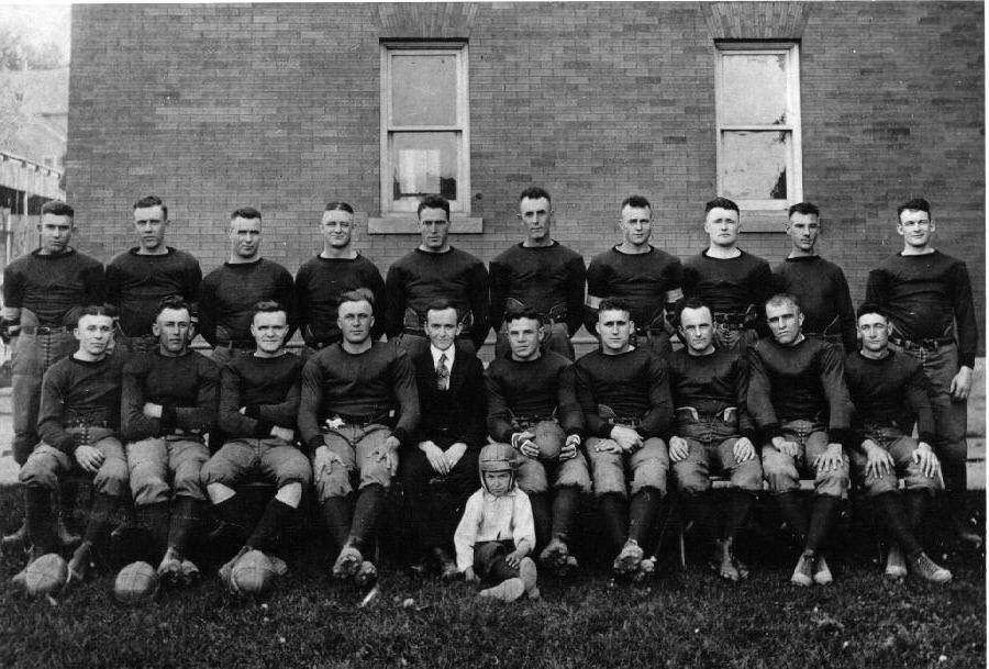 In the early 1920s, Coaldale, Pennsylvania formed one of the earliest professional football teams. This image of the inaugural team is well known and can be found in various books about early football.